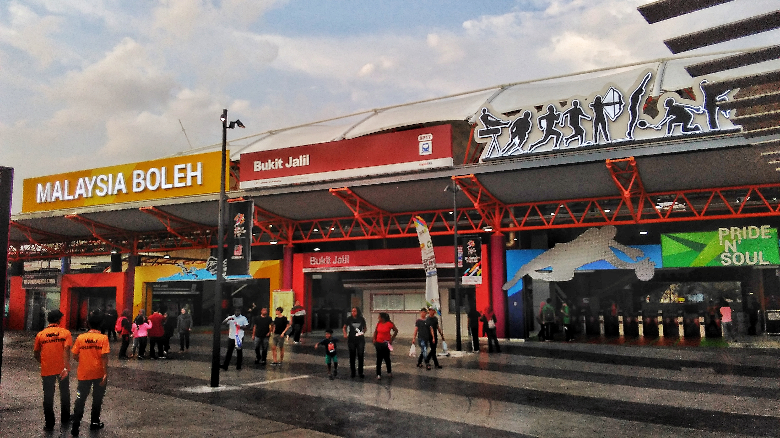 The exterior of the station has sports-related designs.